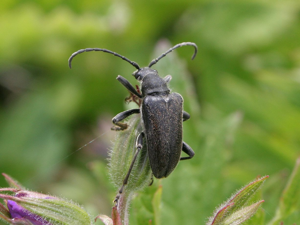 Acmaeops septentrionis (Rochers de Naye, Swizerland, 2000 m)